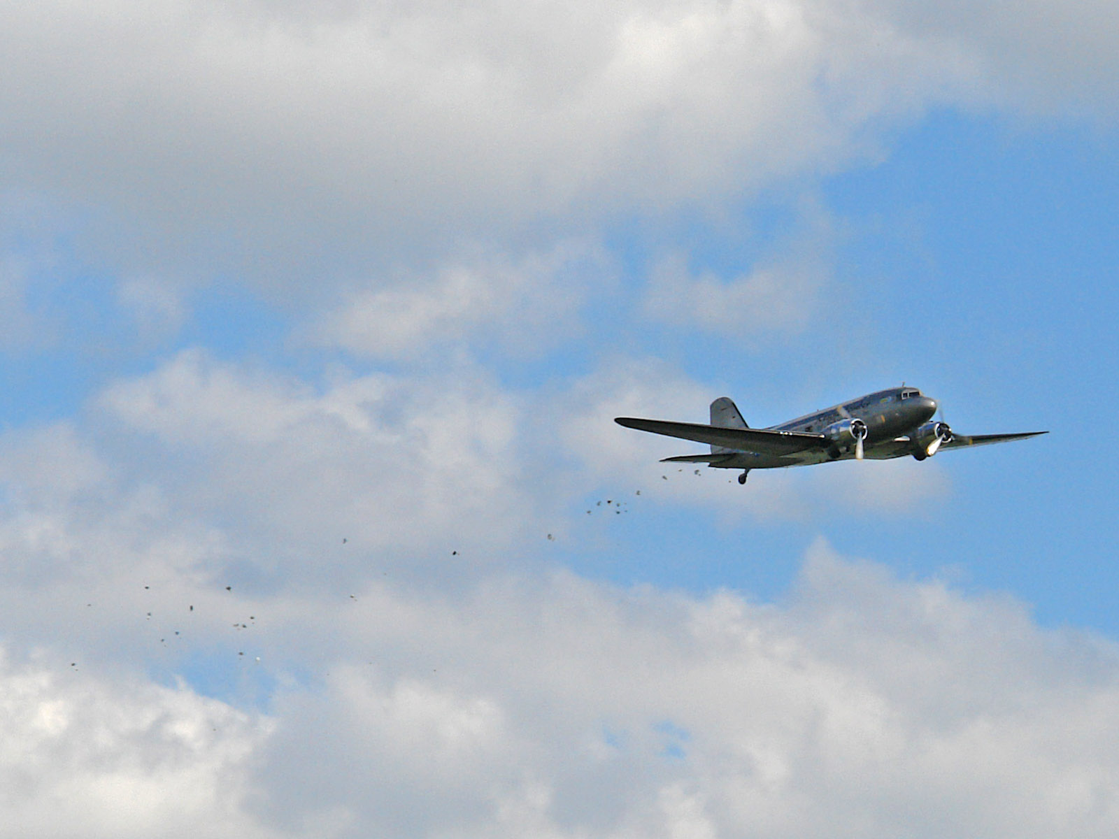 The Douglas C-47 Skytrain nicknamed "Rosinenbomber" by its Operator Air Service Berlin does a Candy Drop with Gail Halvorsen on board to commemorate the 60th anniversary of the end of the Berlin Blockade.